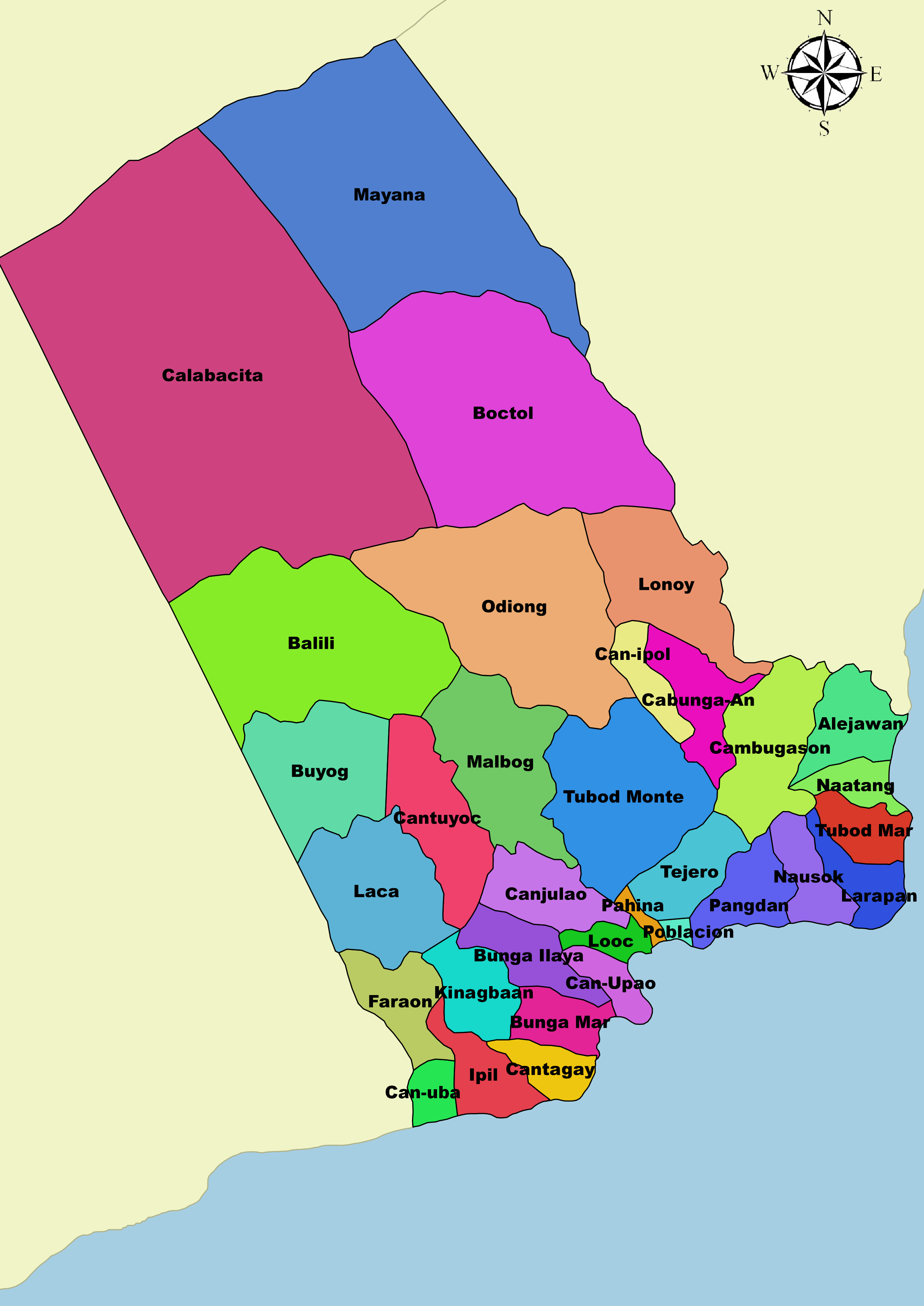 Map of Jagna Bohol in the Philippines